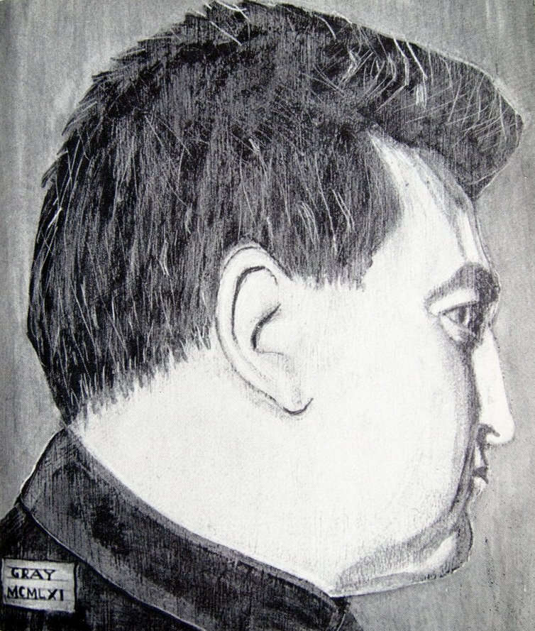 This image is higher pixel and better definition than earlier upload, please replace